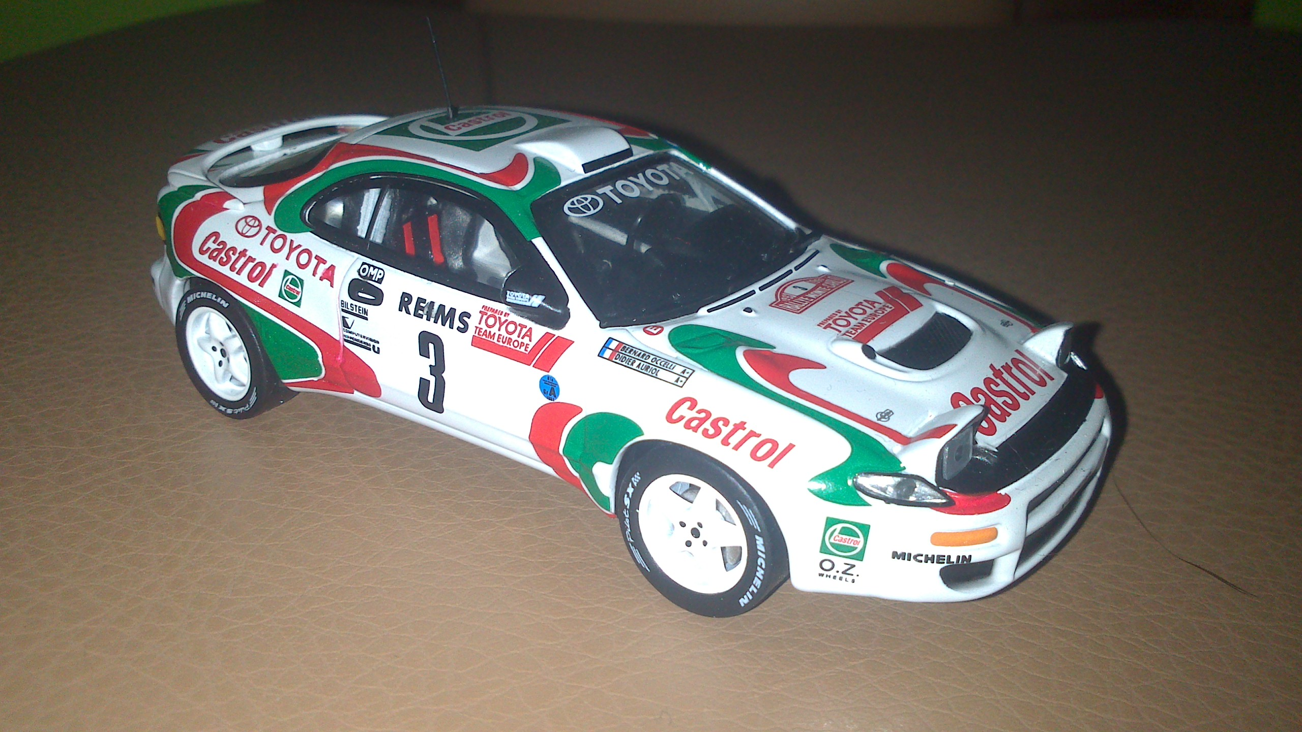 Toyota Celica Turbo 4WD (ST185) - Auriol/Occelli, Rally Monte Carlo 1993